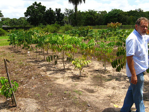 Platonia tree seedlings